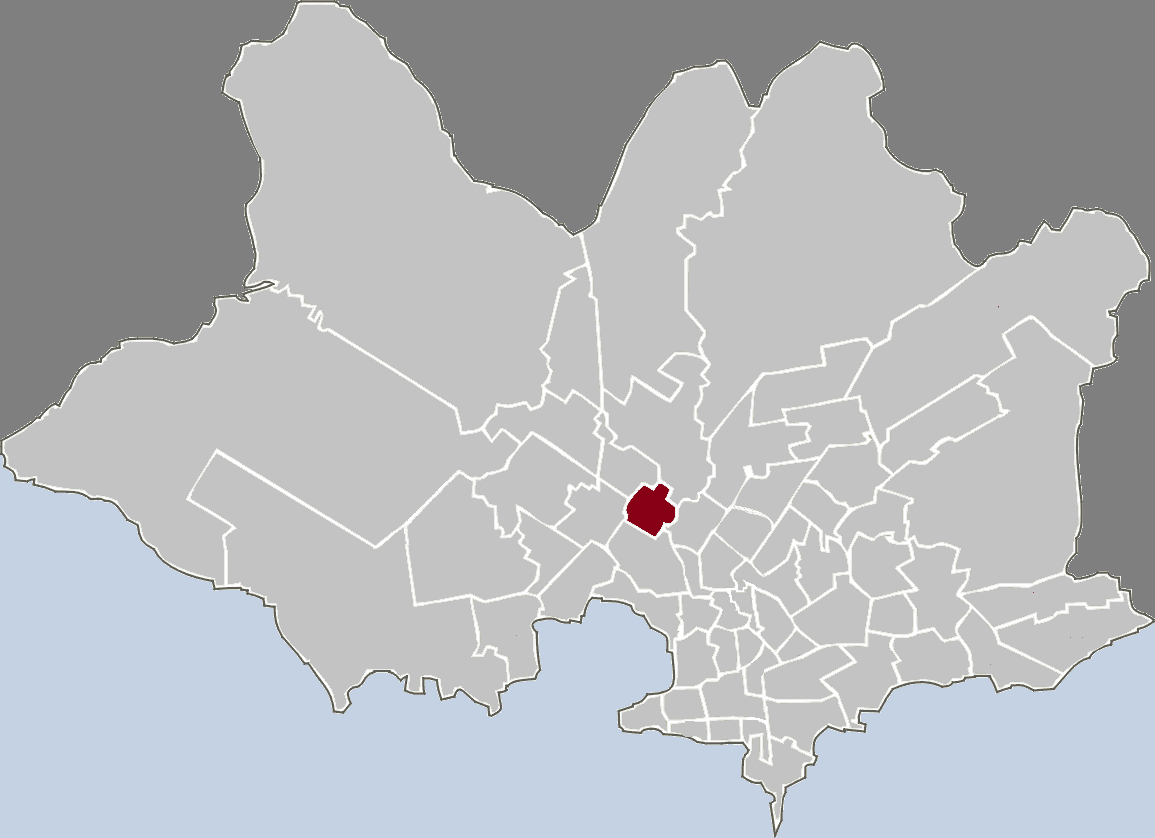 Map highlighting the given barrio in Montevideo.